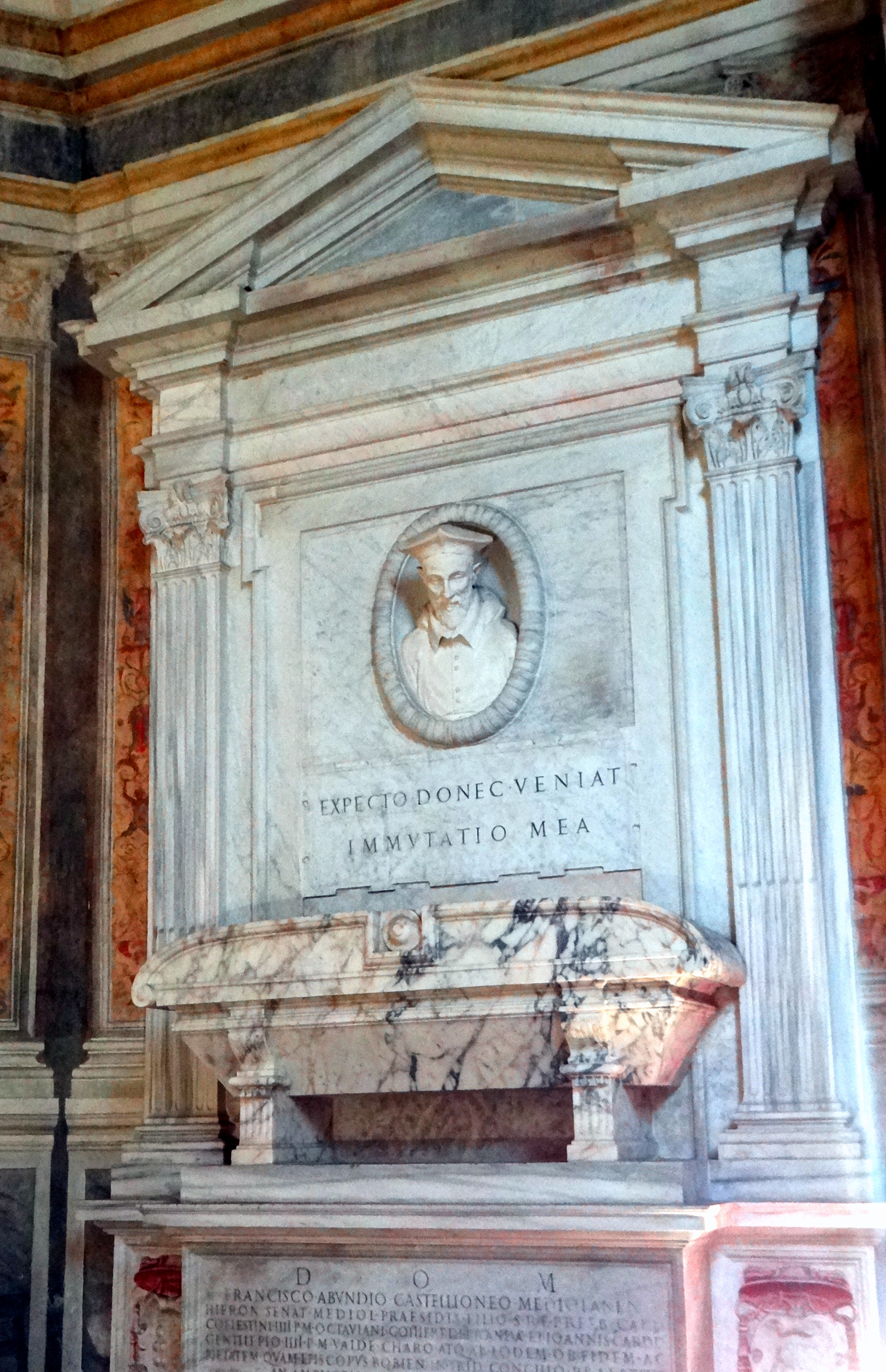 The sepulchral monument of Cardinal Francesco Abbondio Castiglioni in the Montemirabile Chapel, Santa Maria del Popolo